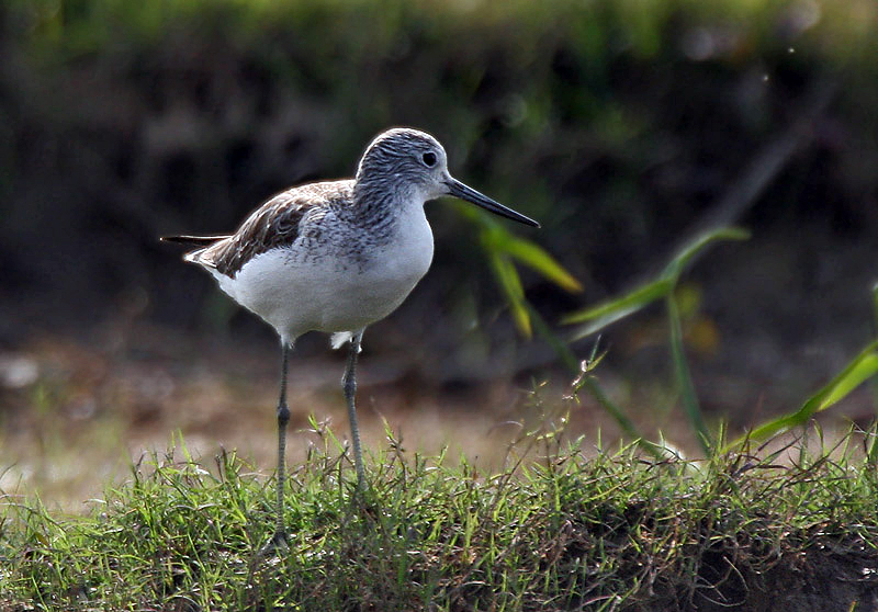 Common Greenshank (Tringa nebularia) at Purbasthali in Burdwan District of West Bengal, India.